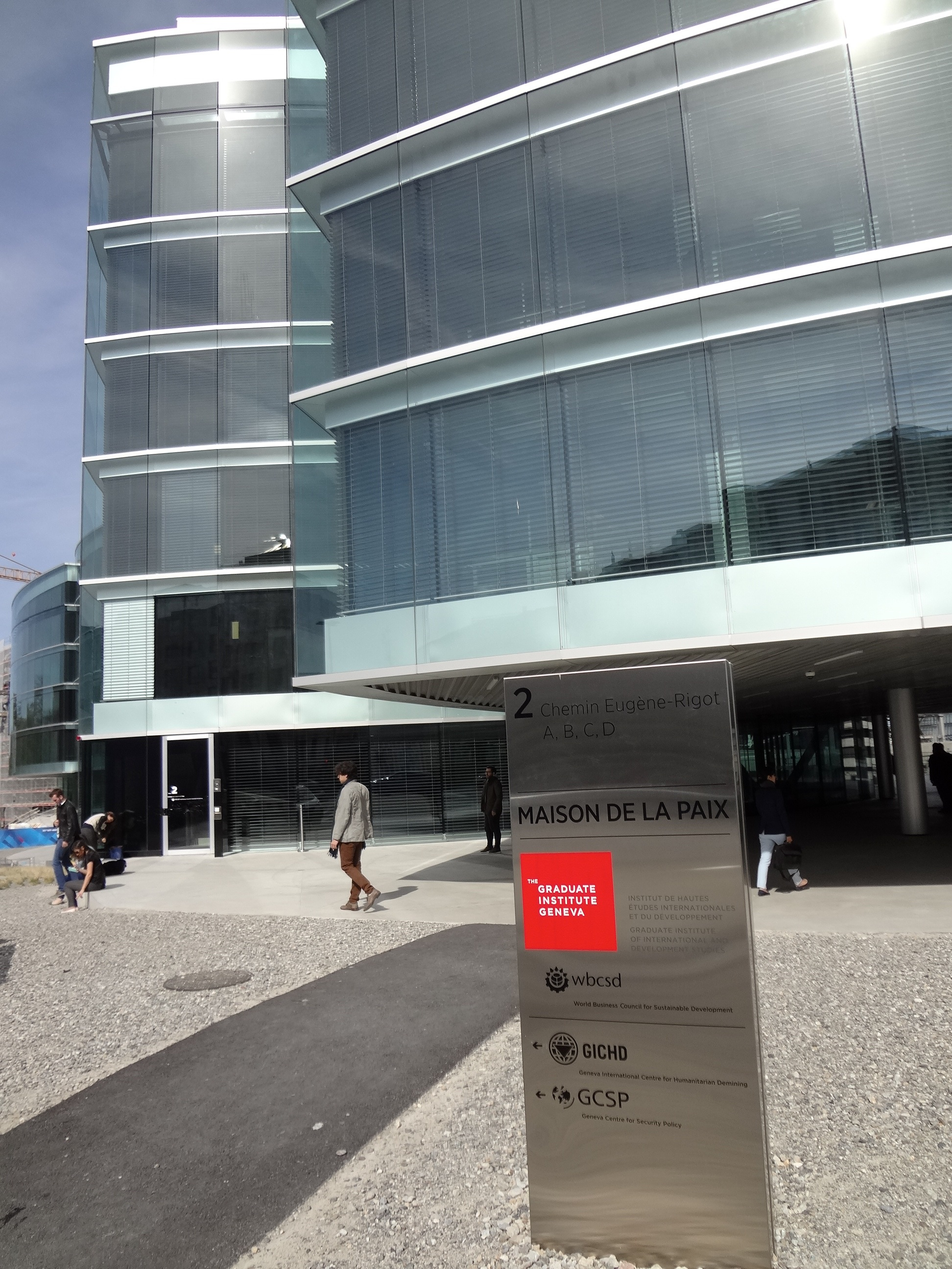 Maison de la paix, Geneva.